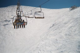 Heavenly Valley (and a chairlift), Mount Hotham, Victoria, Australia.